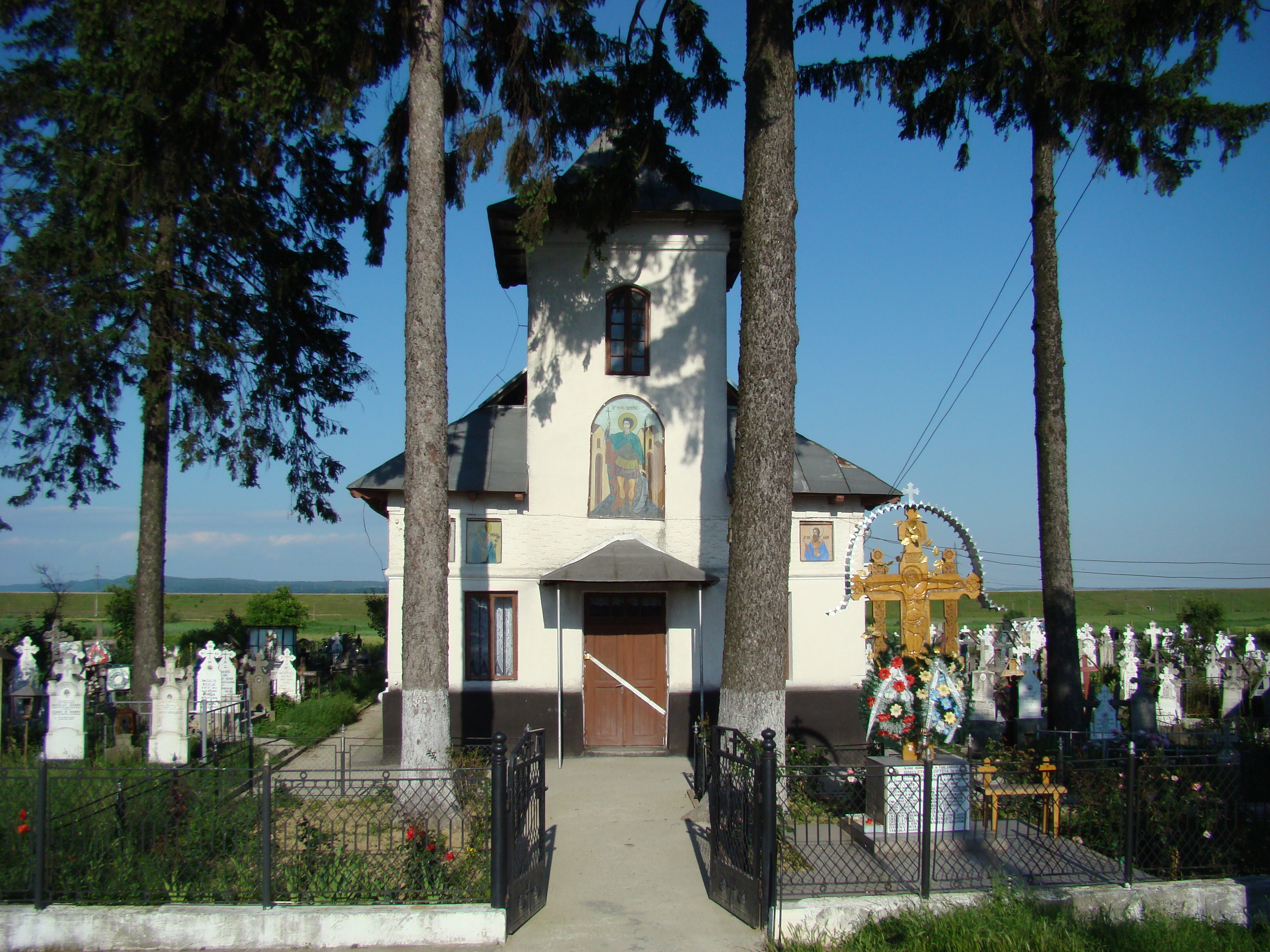 Saint Demetrius of Thessaloniki church?